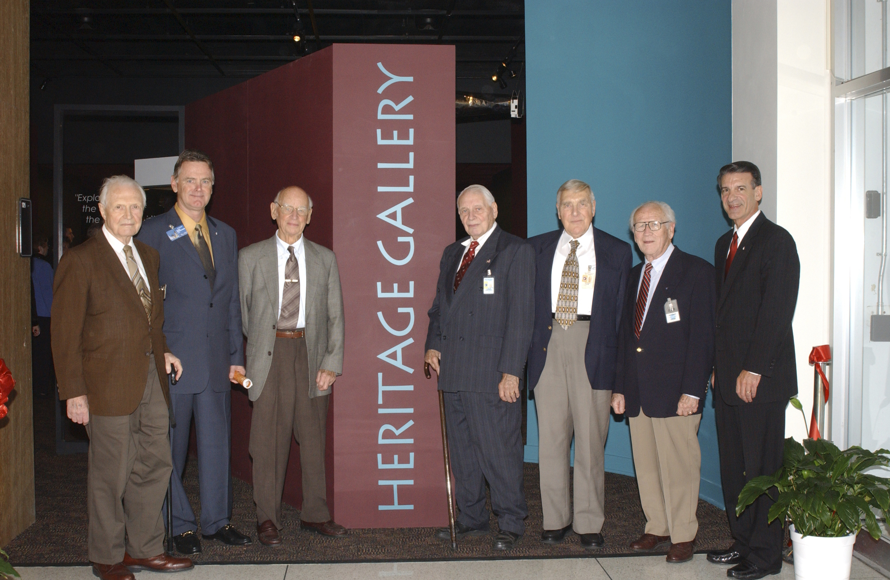 Marshall Space Flight Center's (MSFC's) building 4200 hosts a new spaceflight history museum referred to as the Heritage Gallery, allowing employees and visitors alike to have the opportunity to experience history first hand. On display are many models of launch vehicles and spacecraft that have made the center famous. It features a full-scale mockup of the lunar roving vehicle, three built-in multimedia displays, a large theater screen, and two glass cases that house memorabilia such as personal items belonging to Wernher von Braun, MSFC's first Center Director. The new Heritage Gallery features the accomplishments of several past and present members of the Marshall team. Attending the ribbon cutting ceremony are: (left to right) Gerhard Reisig; Cort Durocher, executive director of the American Institute of Aeronautics and Astronautics; Ernst Stuhlinger; Konrad Dannenberg; Werner Dahm; Walter Jacobi; and host of event, Center Director Art Stephenson.